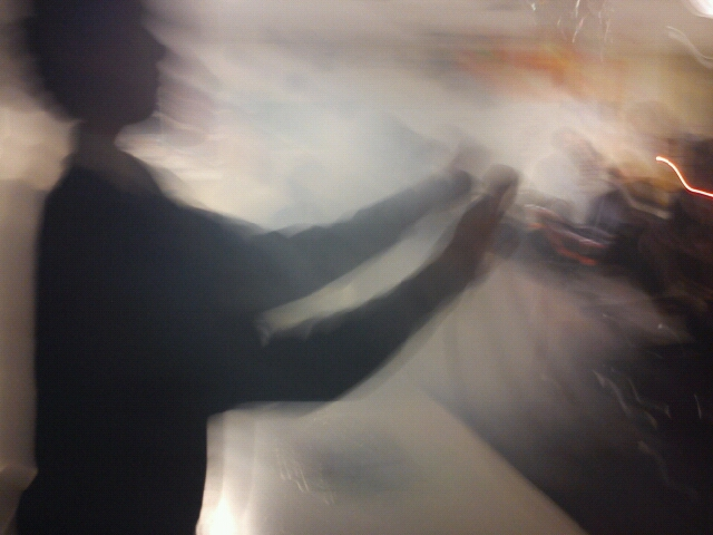 A methane bubble which when shot with a person standing near it with their hands out to create the impresion that they have lightning coming out of their hands. No post-capture editing (like Photoshop) was used on this image.